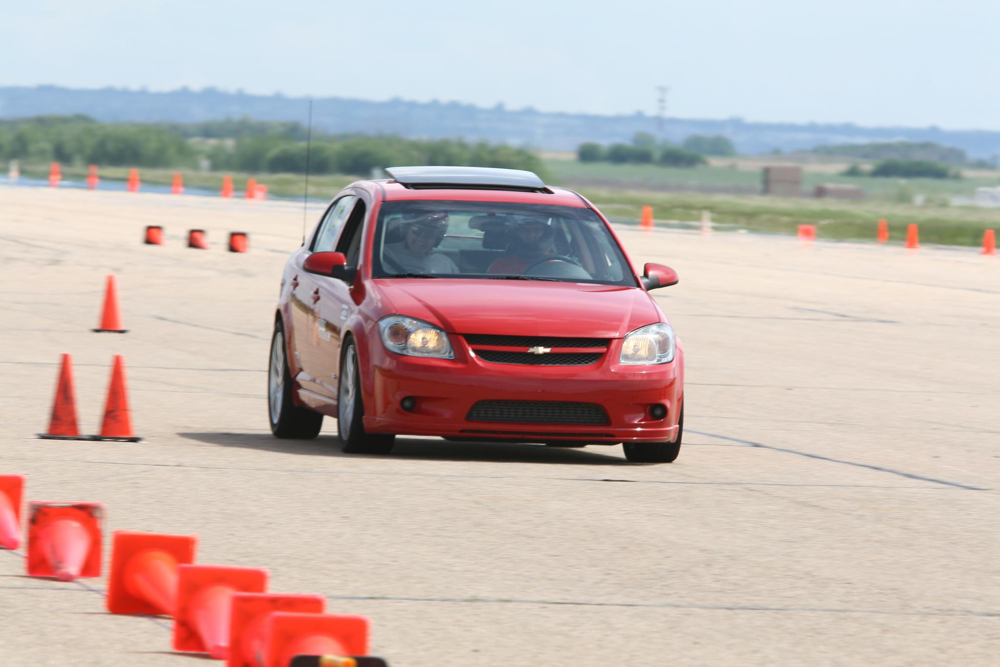 Chevrolet Cobalt SS Turbocharged sedan racing.